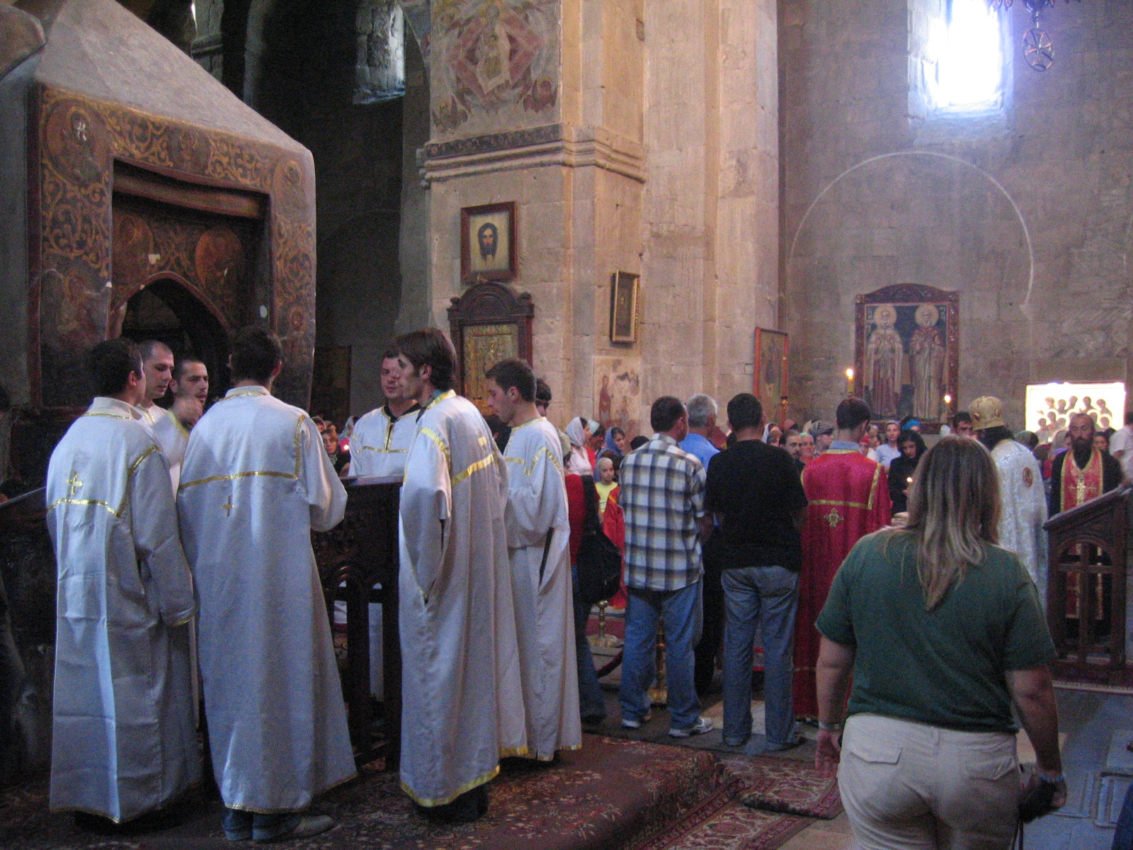 Ceremonie in Svetitskhoveli